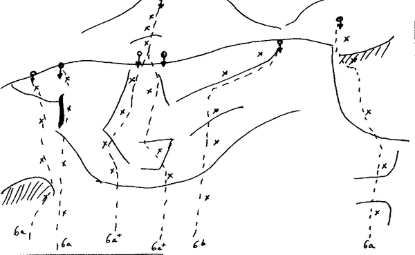 Rock climbing topo for Giuncheto